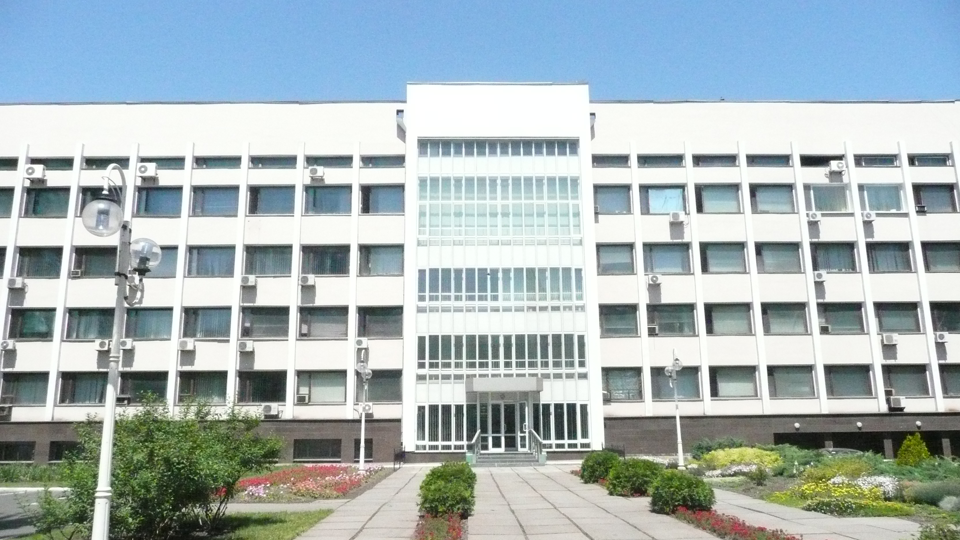 City administration of Mariupol